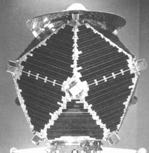 US military scientific-reconnaissance satellite Vela-1.